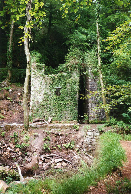 Stithians: Kennall Vale Gunpowder Works. The 19th century gunpowder works was water-powered, employing leats from the river Kennall. The buildings shown here once had an overshot waterwheel in the gap, powering edge runners in incorporating mills on either side. The gunpowder works supplied many of the mines of west Cornwall until 1910, by which time gunpowder had been largely replaced by high explosives. The site is now within a Nature Reserve